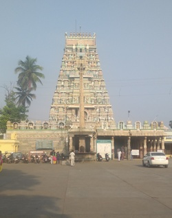 Avinashiappar temple, Avinashi, Coimbatore district, Tamil Nadu, India